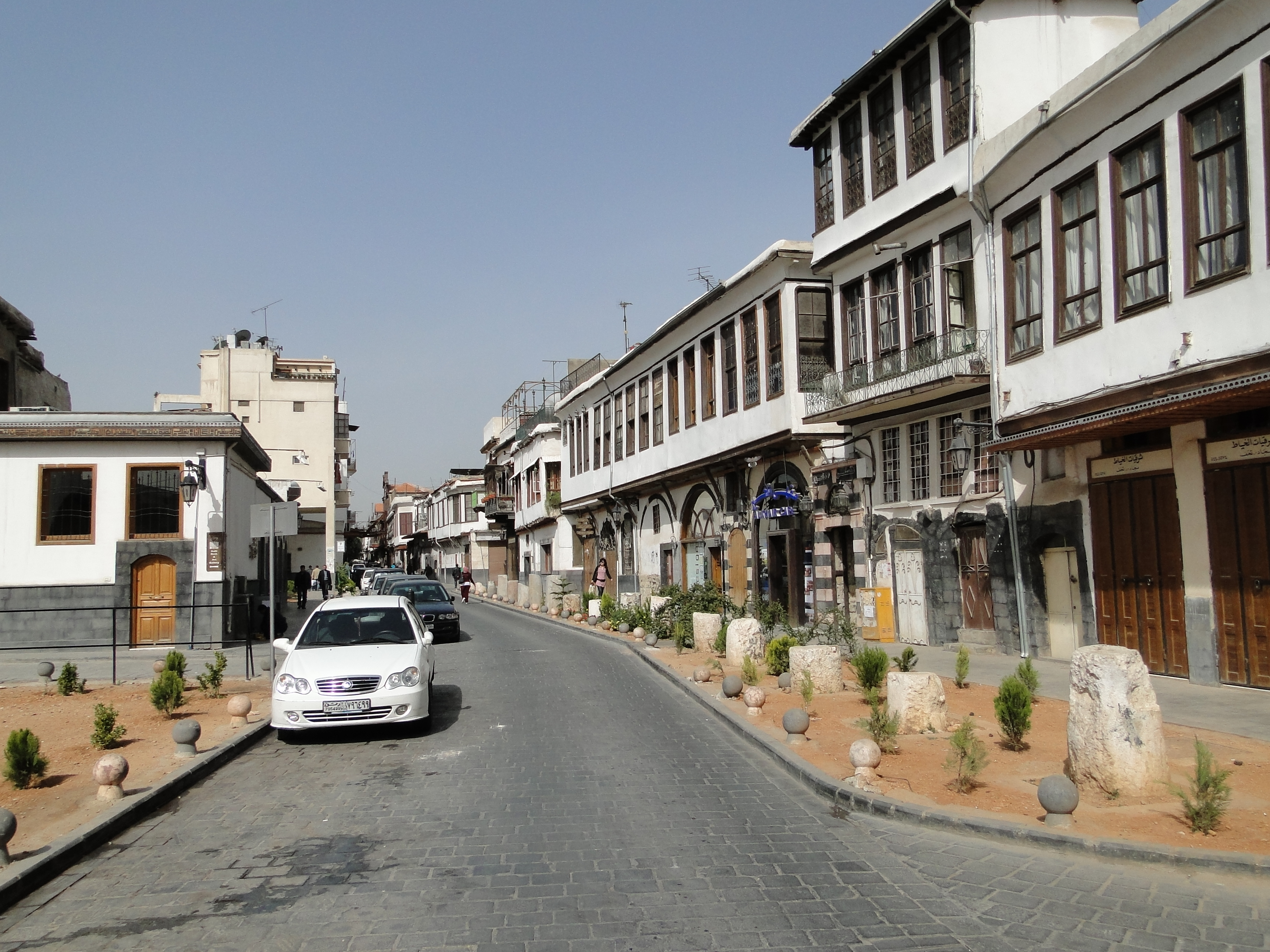 View of Bab Sharqi Street which is the east end of the old Street Called Straight, Damascus, Syria